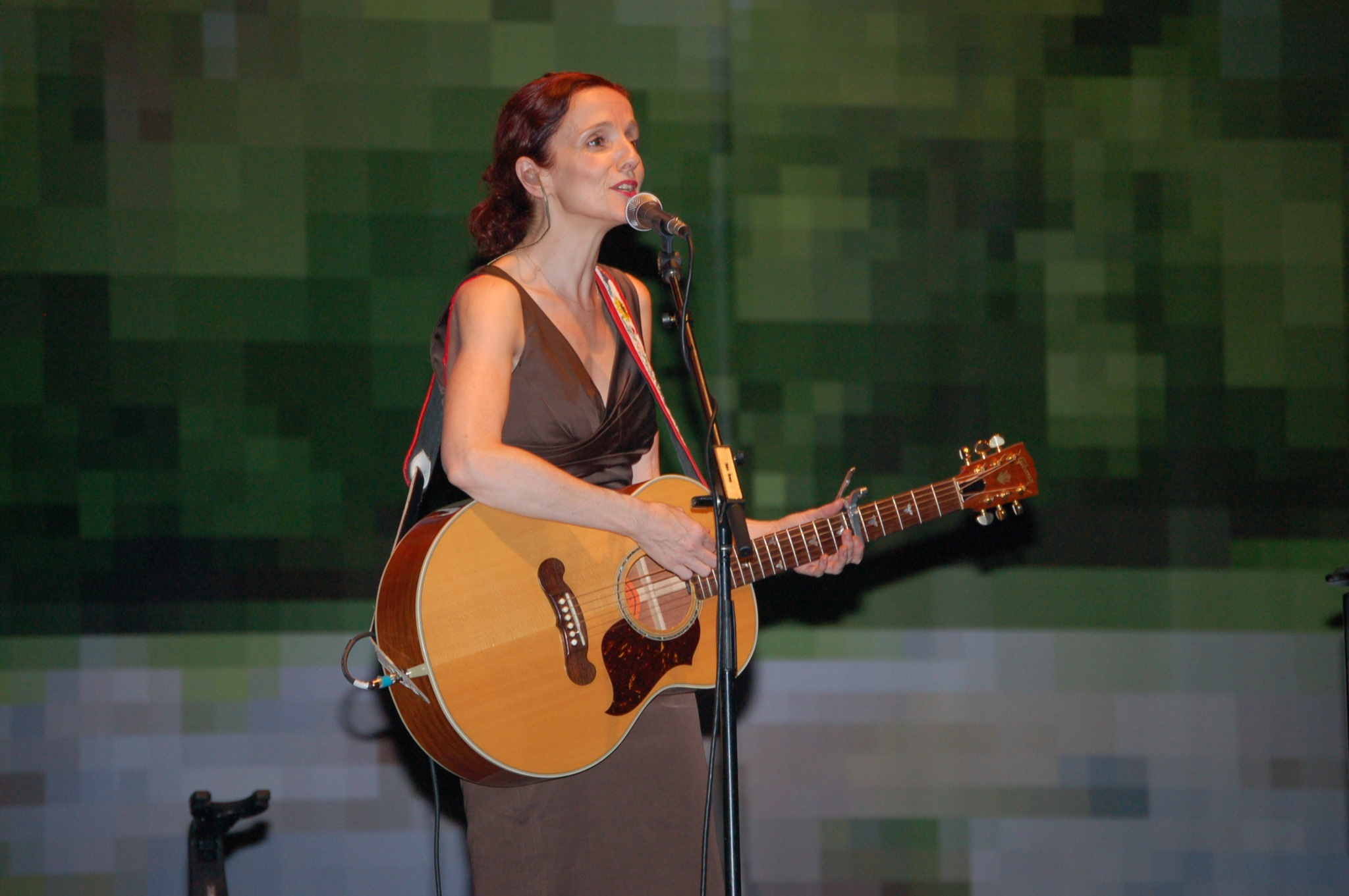 Patty Griffin at the North Carolina Museum of Art.